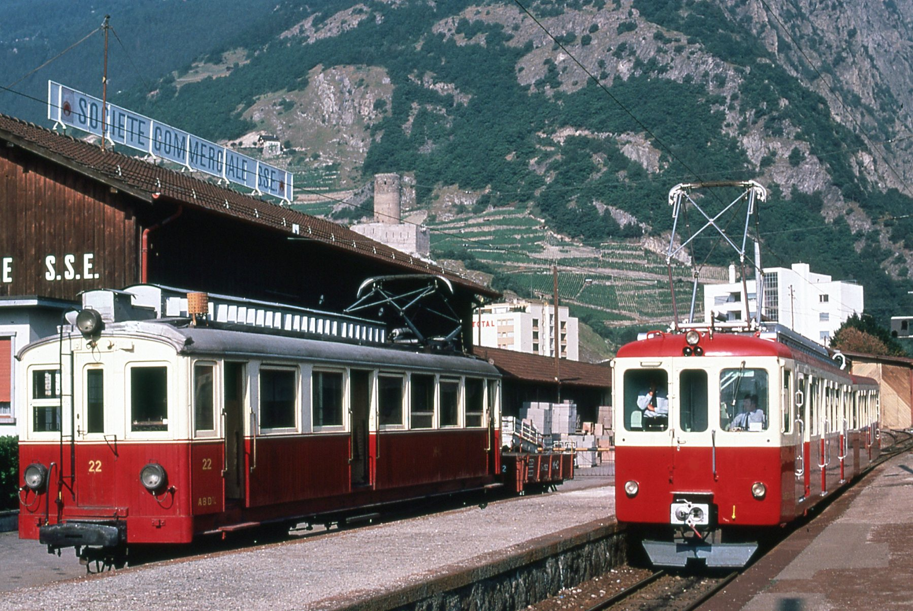 Photo: Trams aux Fils.